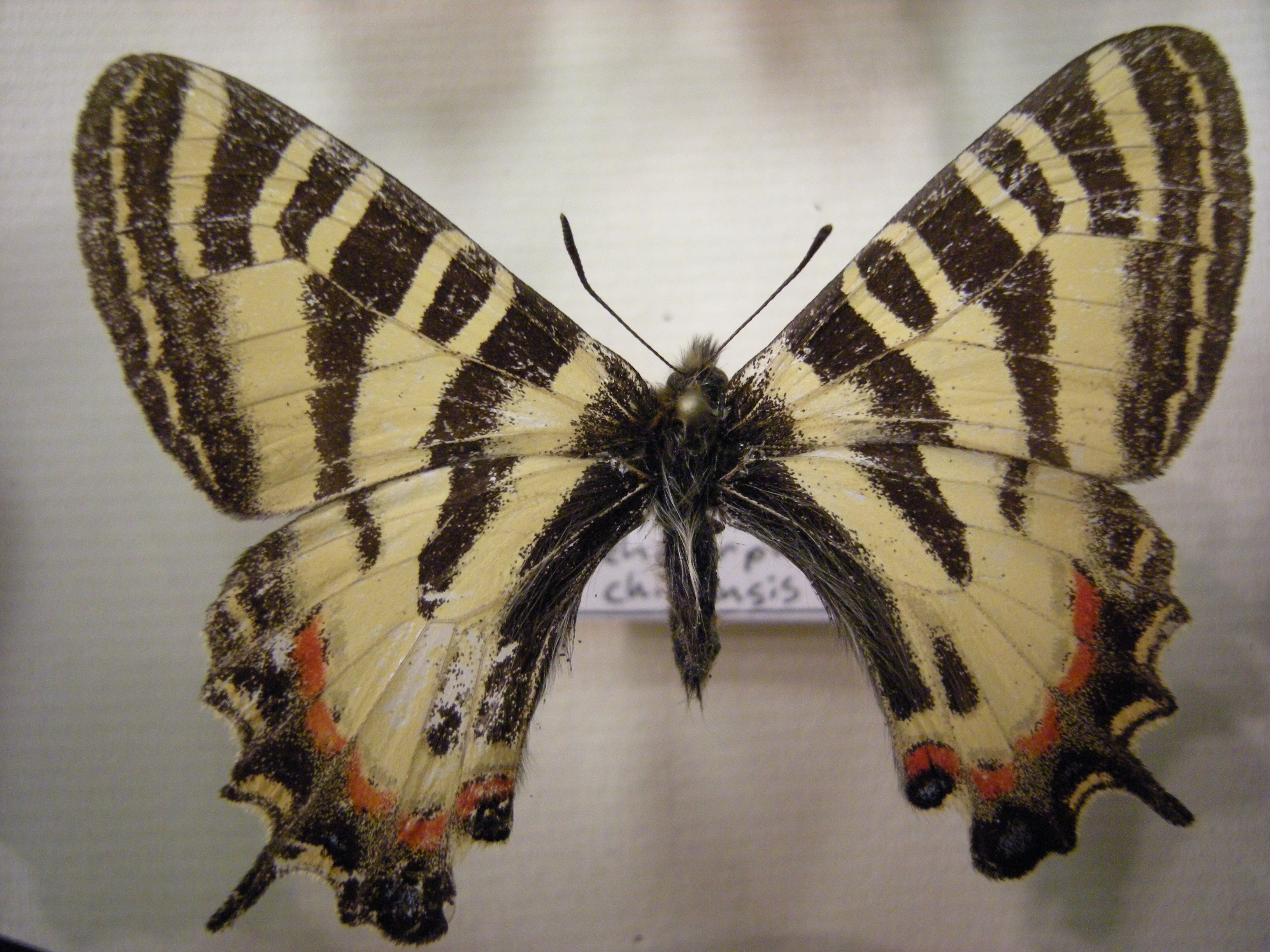 Luehdorfia puziloi. Part of Don Ehlen's "Insect Safari" collection. If you know more about the individual species here, please feel free to flesh out this description.